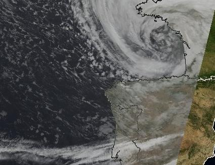 US Navy - NOAA infrared satellite image (NOAA 18) of North Atlantic cyclone. Public Domain